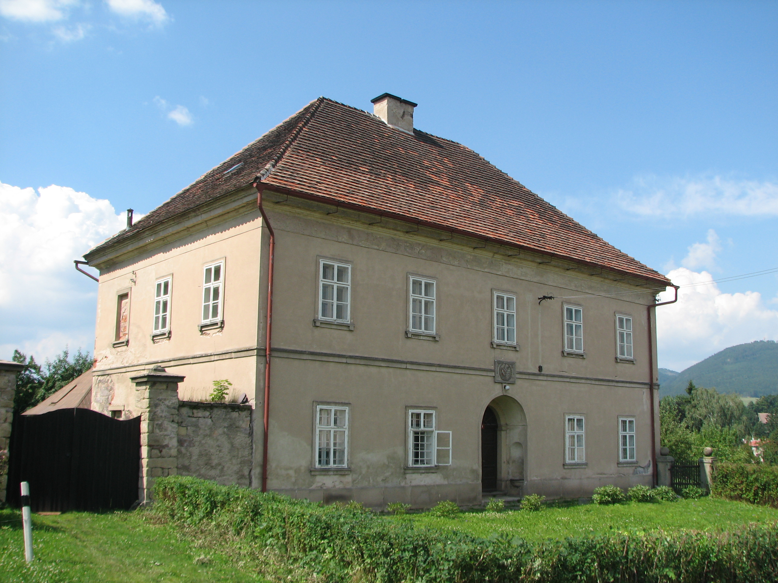 Rectory in Ruprechtice, Náchod District, Czech Republic